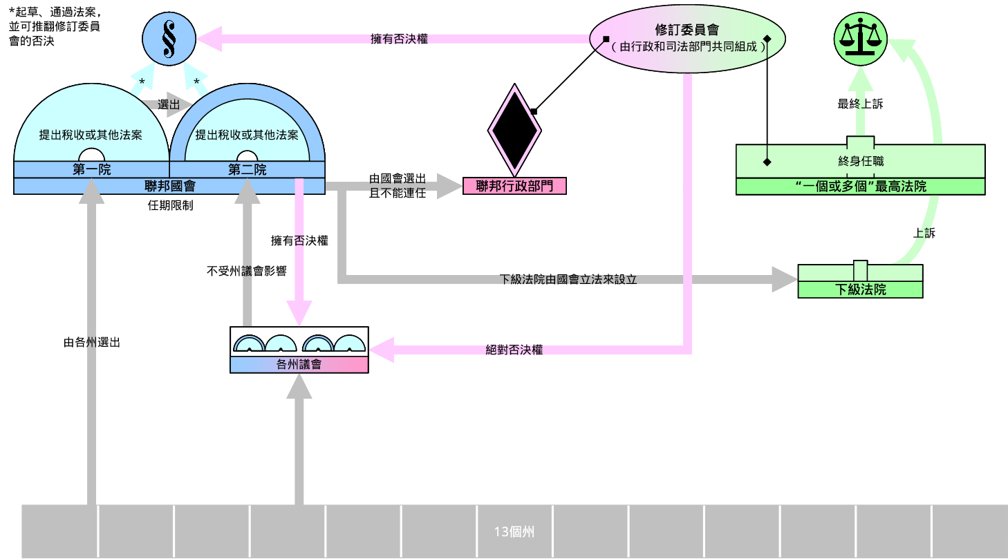 A diagram of the Virginia Plan presented at the Constitutional Convention in the United States in 1787.